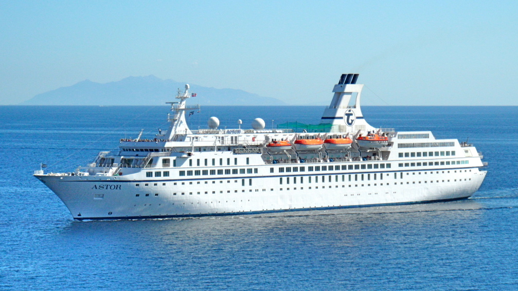 The Astor, cruise ship during a stopover in Bastia (Corsica, France)